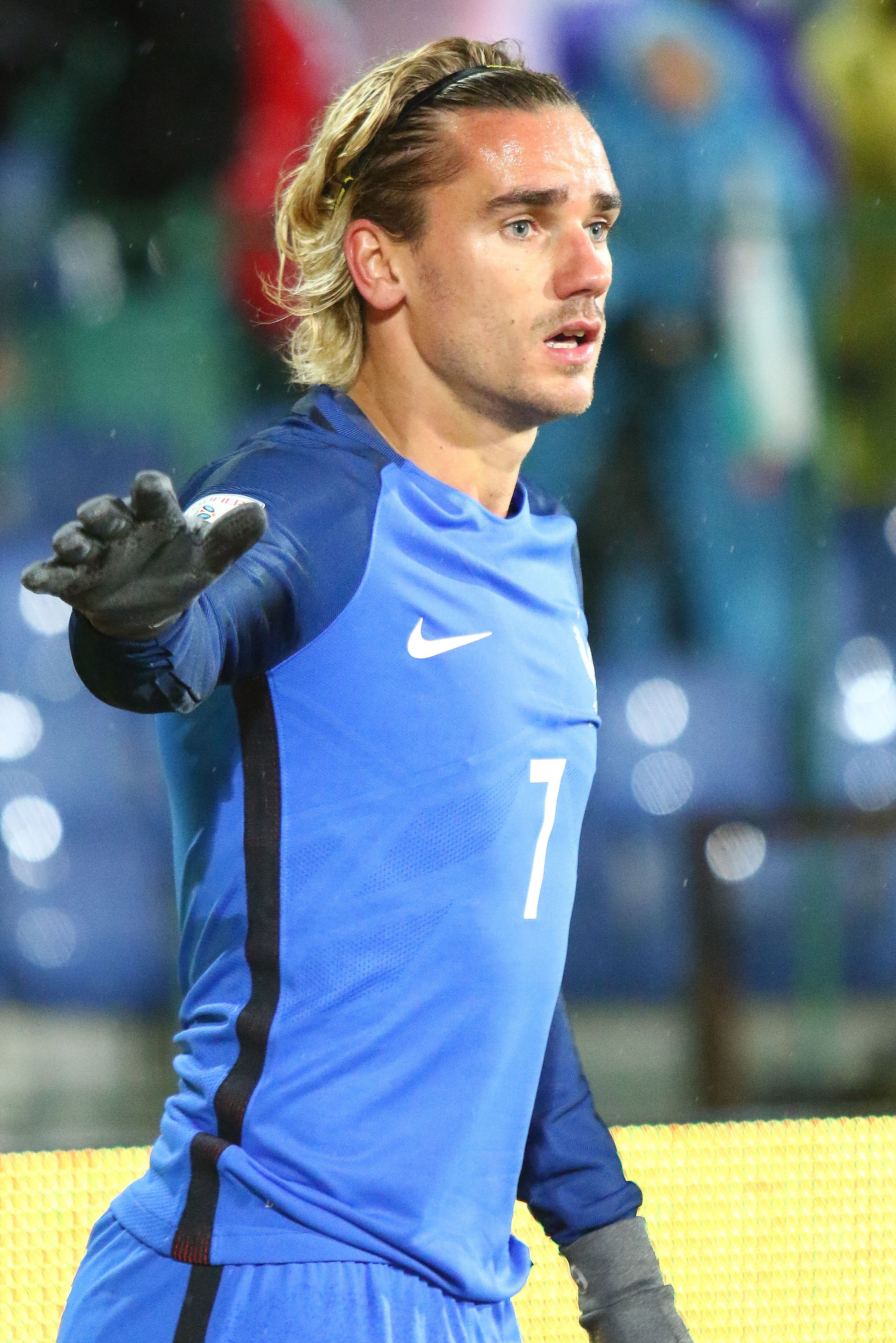 Antoine Griezmann (French pronunciation: ​[ɑ̃twan ɡʁijɛzman];[3] born 21 March 1991) is a French professional footballer who plays for Spanish club Atlético Madrid and the France national team as a forward.